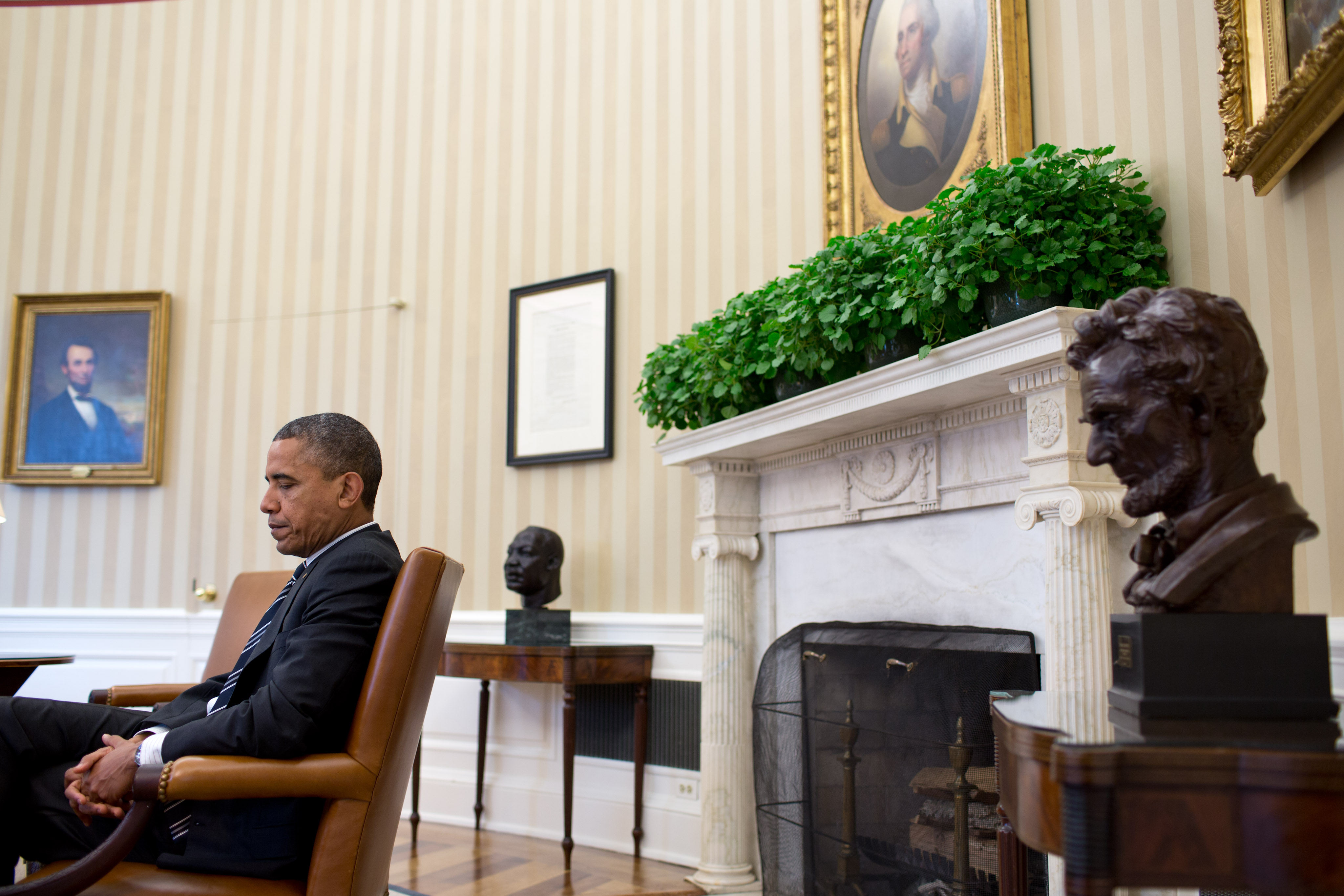 United States President Barack Obama surrounded by artworks during a meeting in the Oval Office. Left to right: a painting of Abraham Lincoln; Barack Obama; a framed copy of the Emancipation Proclamation; below that, a bust of Martin Luther King; a painting of George Washington; and a bust of Abraham Lincoln.